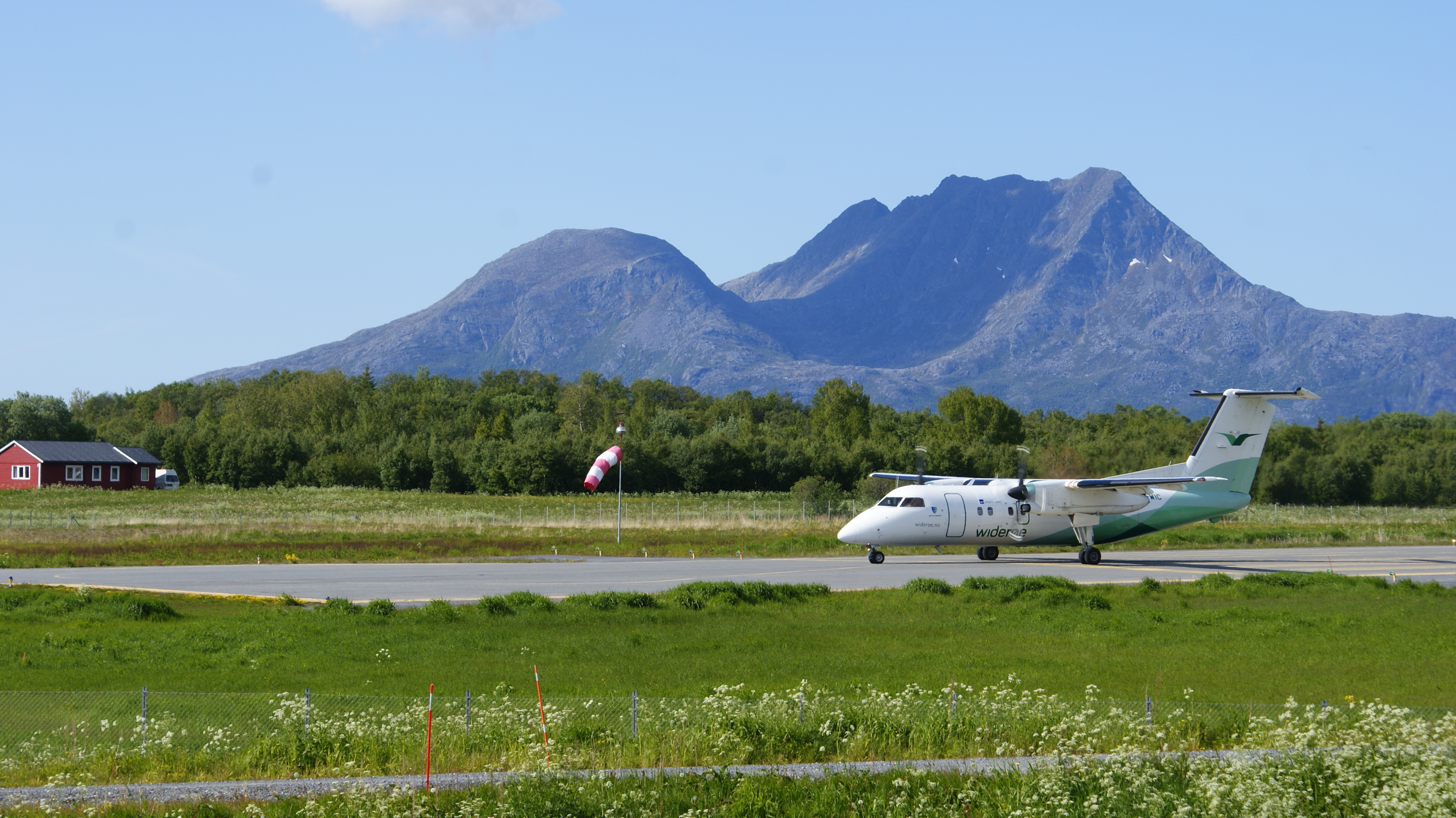 Widerøe de Havilland Canada Dash-8 103 taxiing before takeoff at Sandnessjøen Airport, Alsten, Helgeland, Nordland, Norway. Dønnmannen mountain in the background.